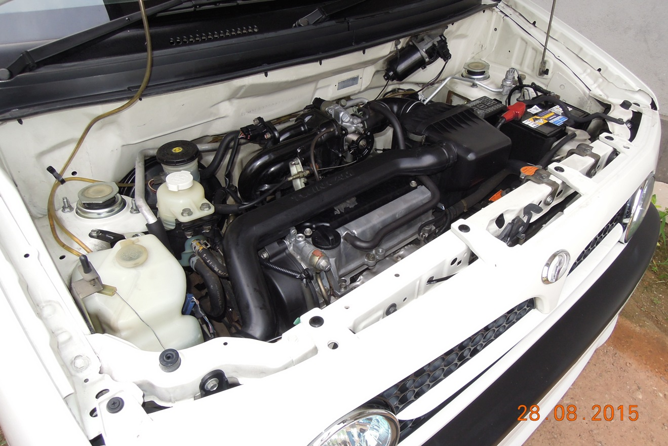 Perodua Kenari Engine compartment